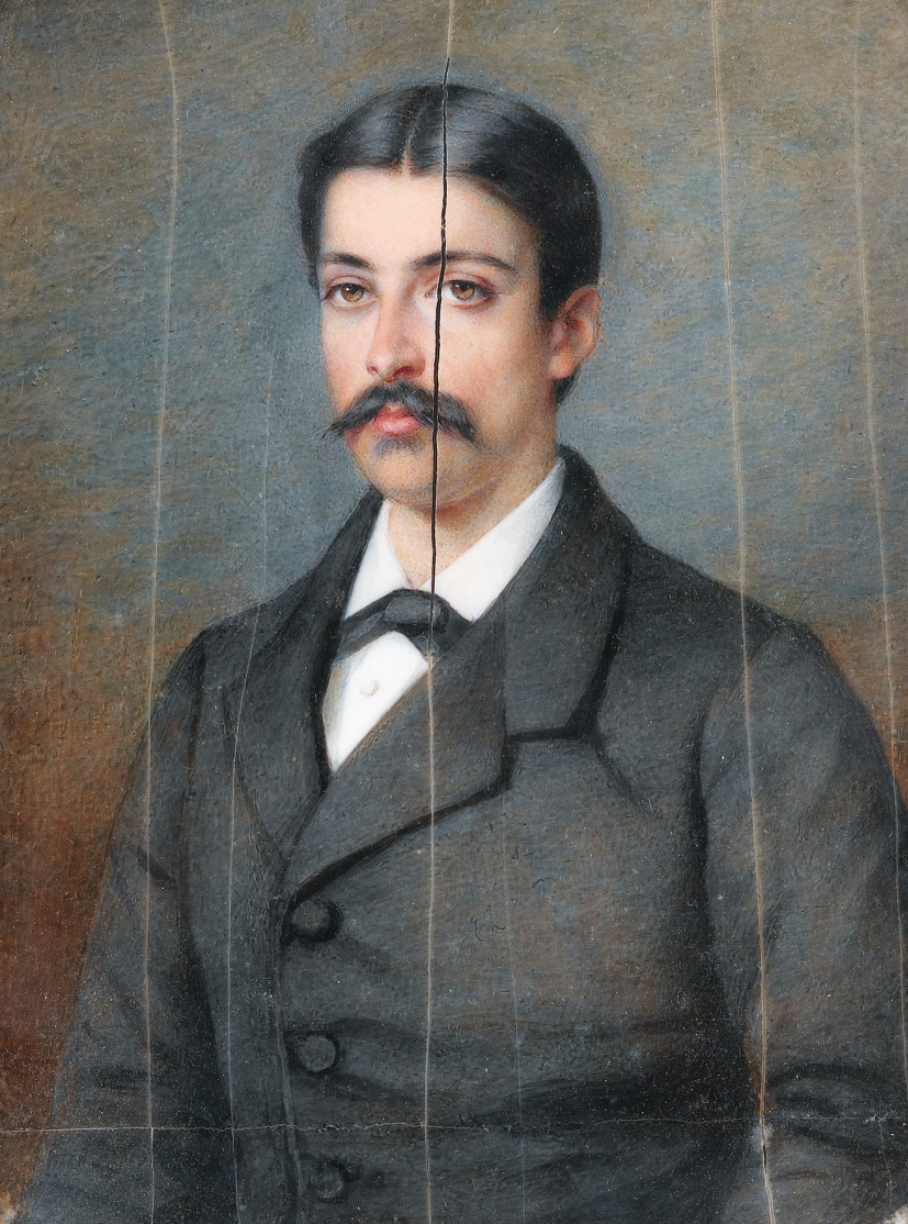 Alexandre Berthier, 3th prince and 2nd duke of Wagram (1836-1911) water colour and gouache on ivory 12,7 by 9,7 cm signed l.: P. de Pommayrac 1866